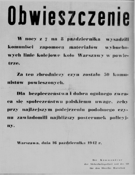 German announcement from General Government, signed by Commandant of SD and Sicherheitspolizei in Warsaw – SS-Obersturmbannführer Ludwig Hahn, informing about the hanging of 50 "communists" (as a reprisal for blowing up railway lines near Warsaw by the Polish resistance movement).